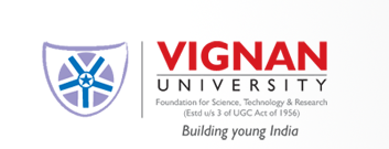 Vignan University Logo